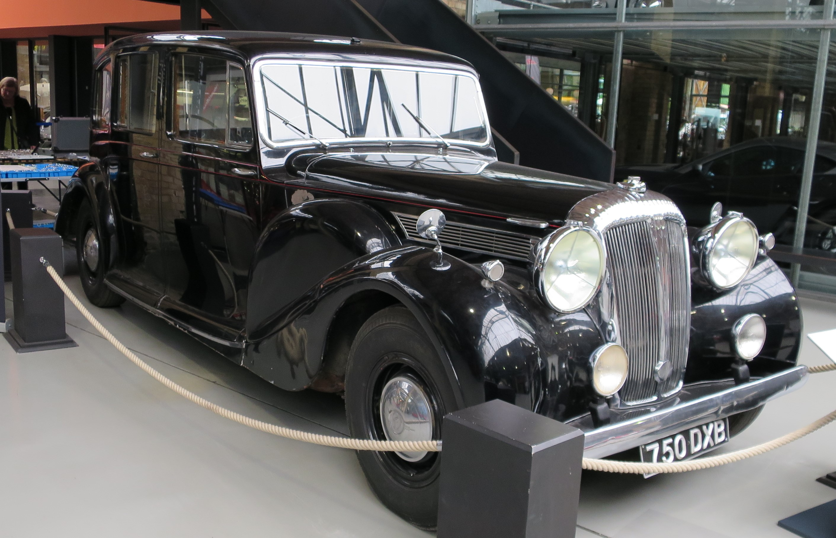 Daimler DE 36 Limousine with Hooper Body. Cropped Version of File:Daimler Thirty-Six (1) Travelarz.JPG